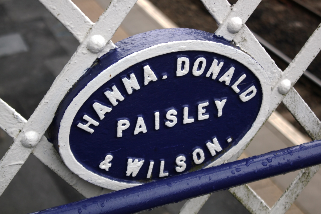 The lattice girder footbridge at Pitlichry railway station was built by Hanna, Donald and Wilson of Paisley.